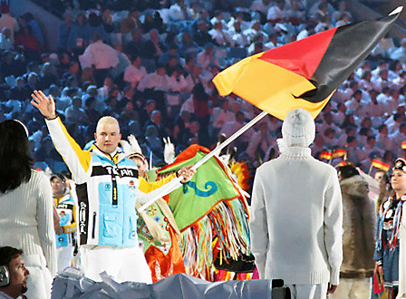 Bobsleigh team member Andre Lang leads Germany in the Parade of Nations at the Opening Ceremony for the 21st Olympic Winter Games in Vancouver British Columbia, Canada.